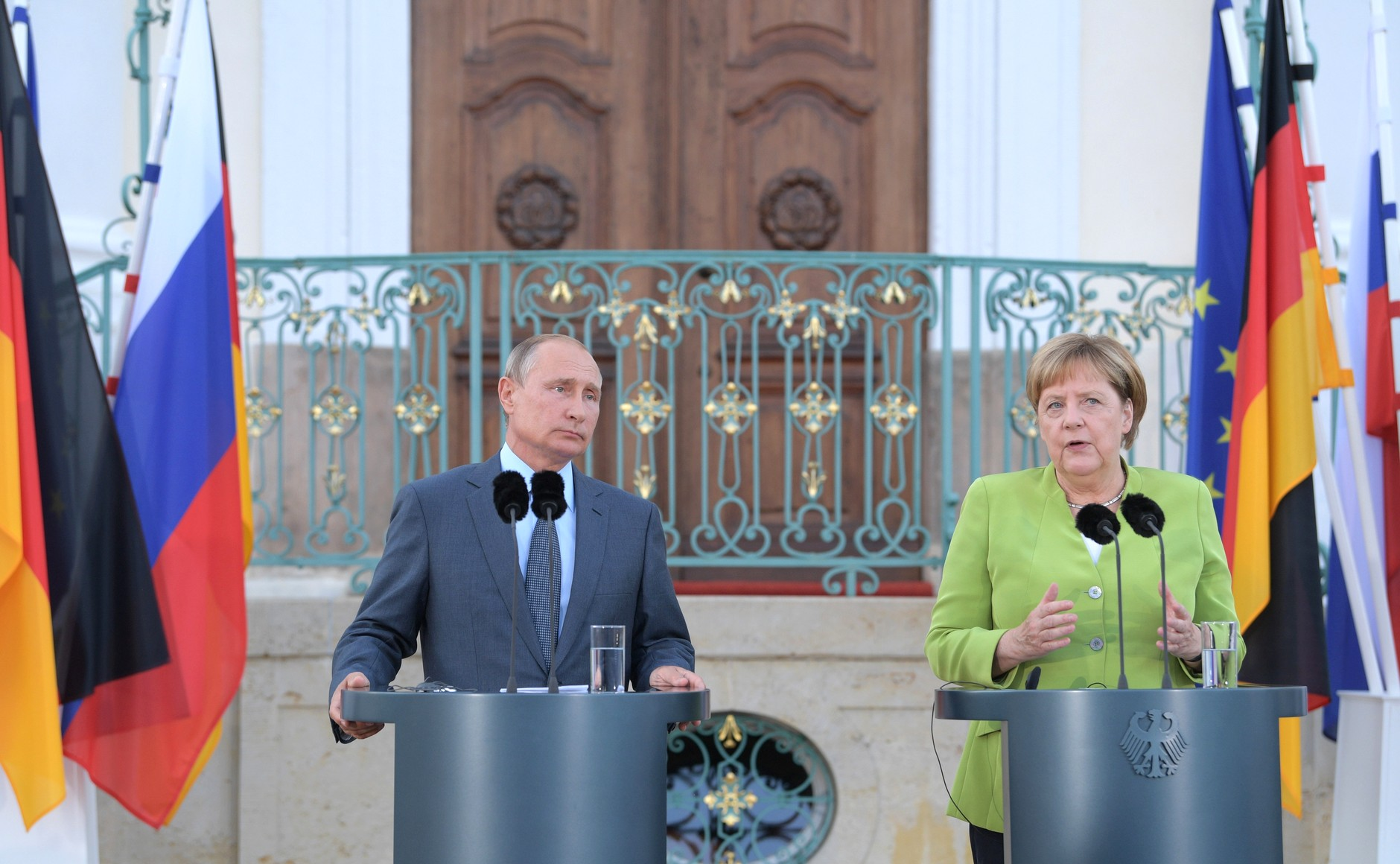 Talks between Vladimir Putin and Federal Chancellor of Germany Angela Merkel were held at the Meseberg residence.